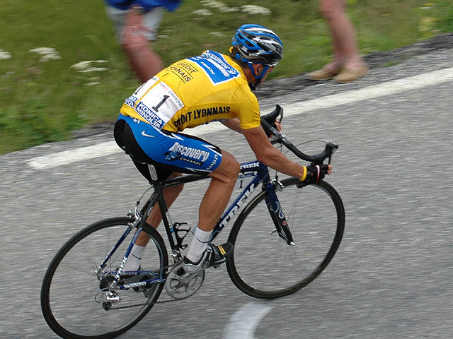 Lance Armstrong at the 2005 Tour de France.